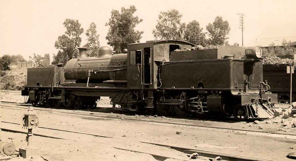 NCCR Garratt 13, renumbered G2, SAR Class GK 2341 (2-6-2+2-6-2).